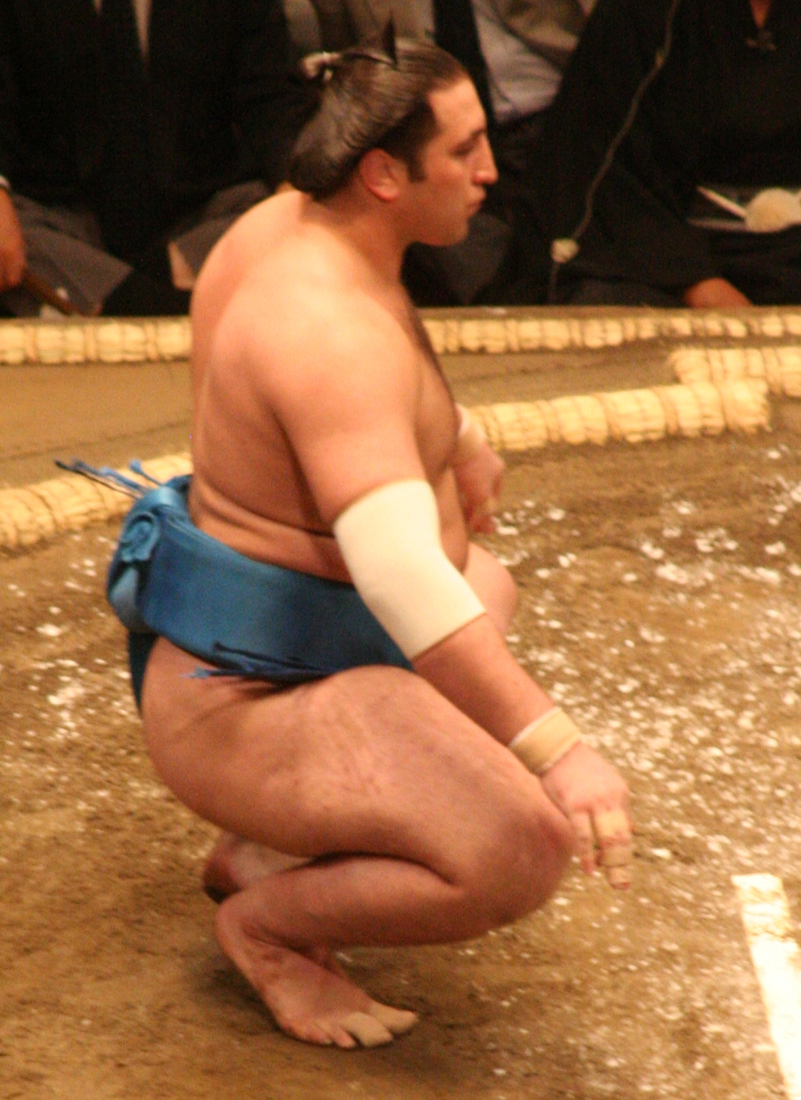 First day of 2009 May Sumo Tournament in Tokyo, Japan - Tochinoshin